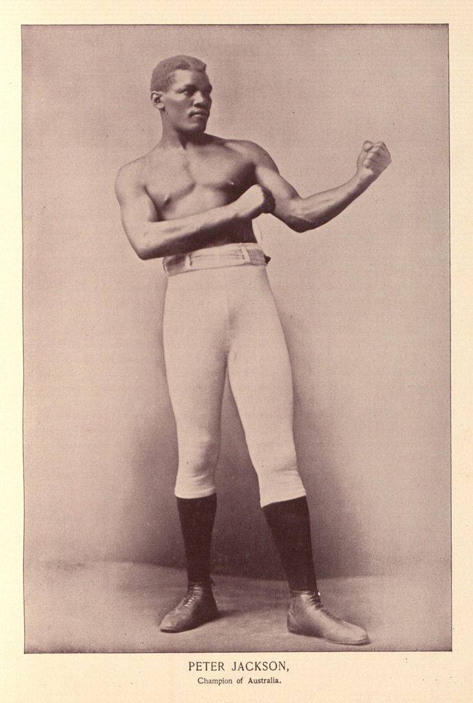 Peter Jackson, Champion of Australia. From: Portrait gallery of pugilists of America and their contemporaries (1894) by Billy Edwards, between pages 8 and 9. Blogged: Pugilists, poetry, and prose for Black History Month Digital Library permanent link